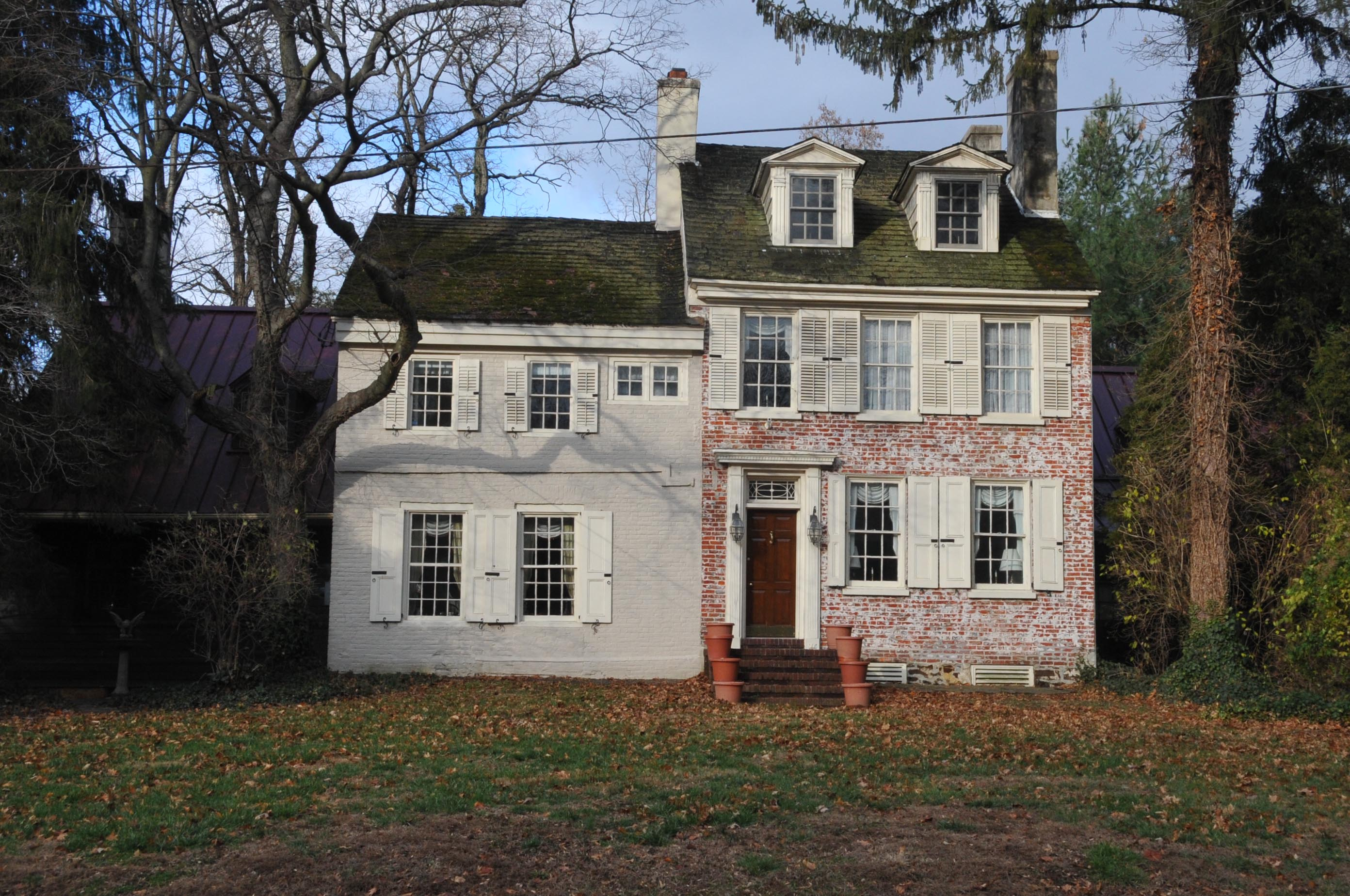 ORIGINAL PART ON THE RIGHT WAS BUILT IN 1699 AND IS THE OLDEST HOME IN HADDON HEIGHTS AND ONE OF THE OLDEST BRICK HOUSES IN NEW JERSEY